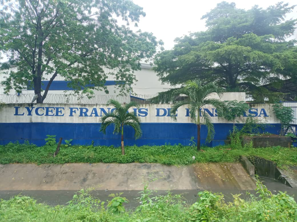 This is an image with the theme "Africa on the Move or Transport" from: Democratic Republic of the Congo